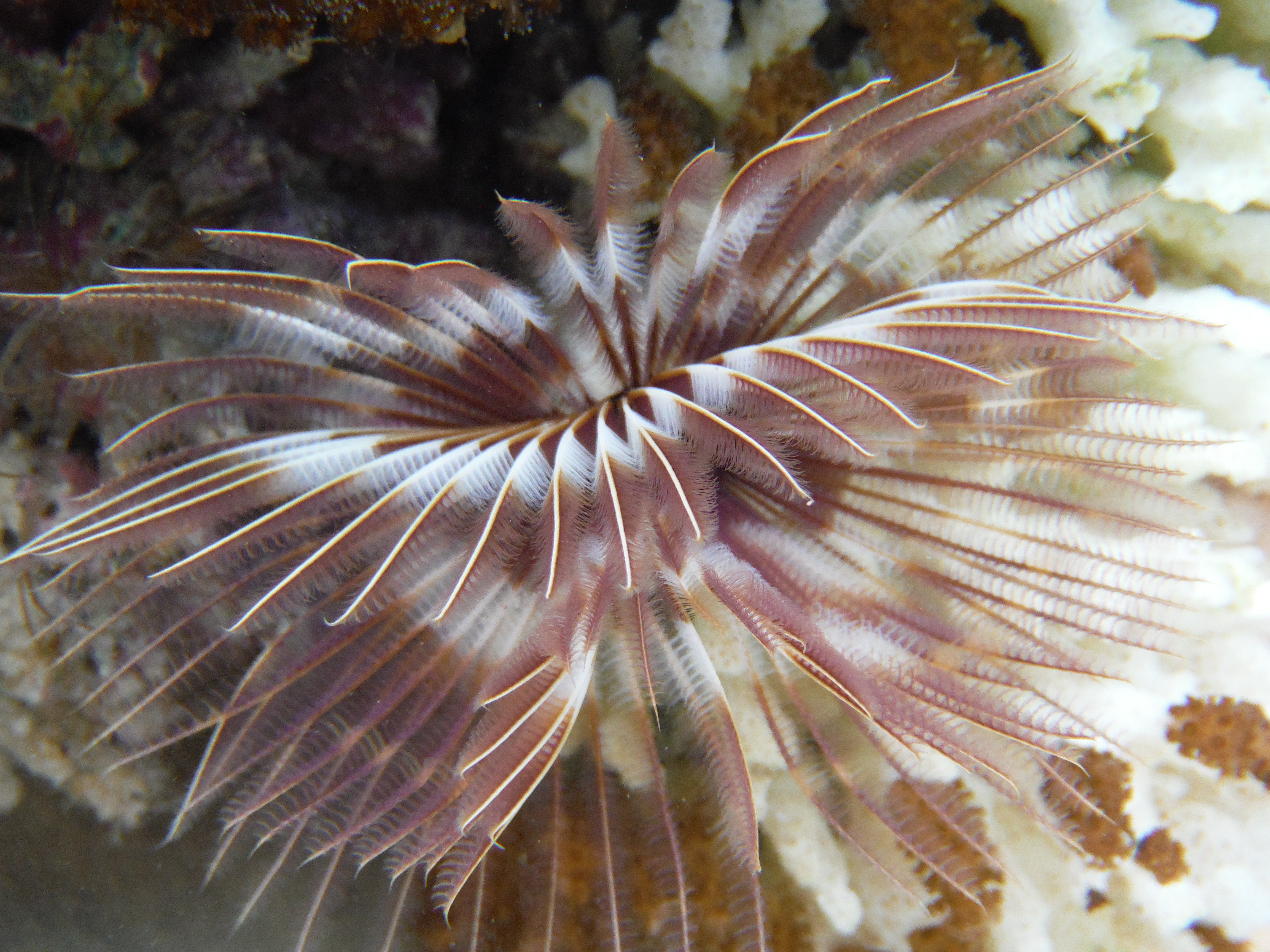 Feather duster worm from Kewalo, Hawaii